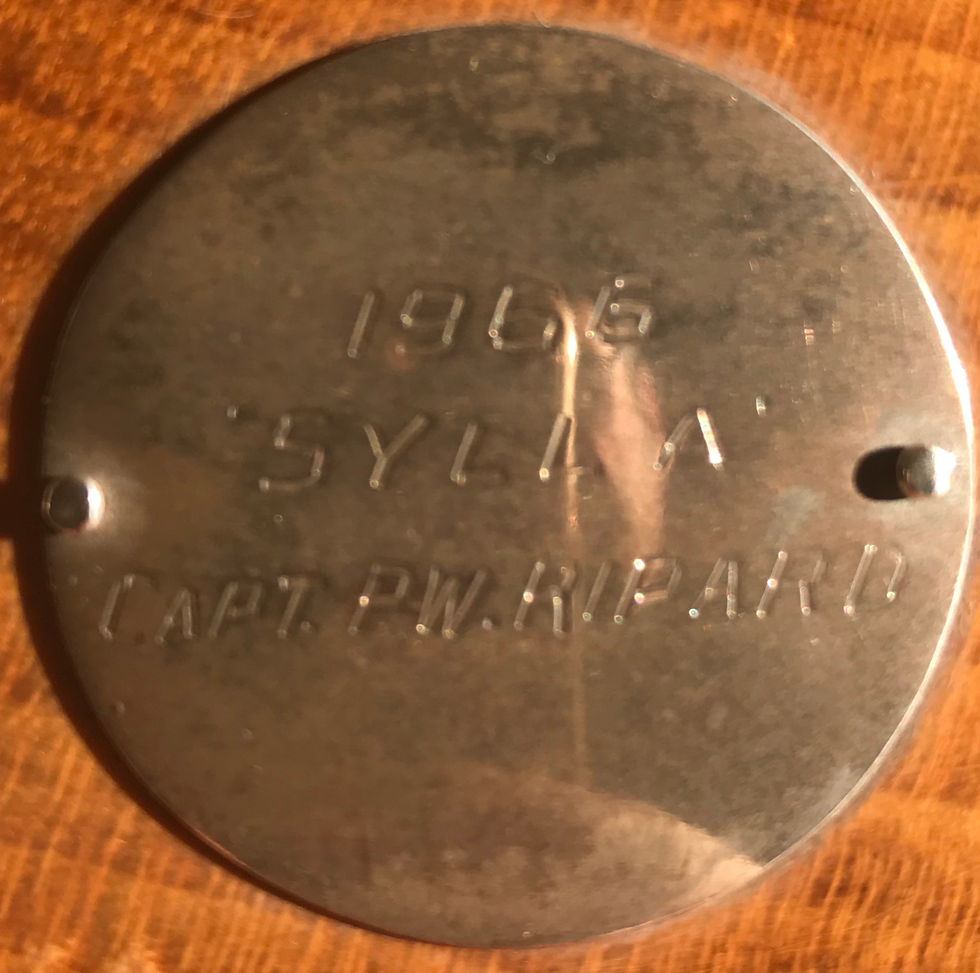 Patch on the Trophy